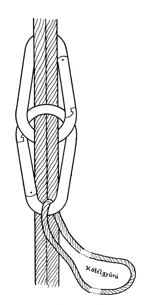 Kessler's carabinerbrake